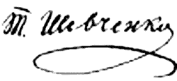 Taras Shevchenko’s signature